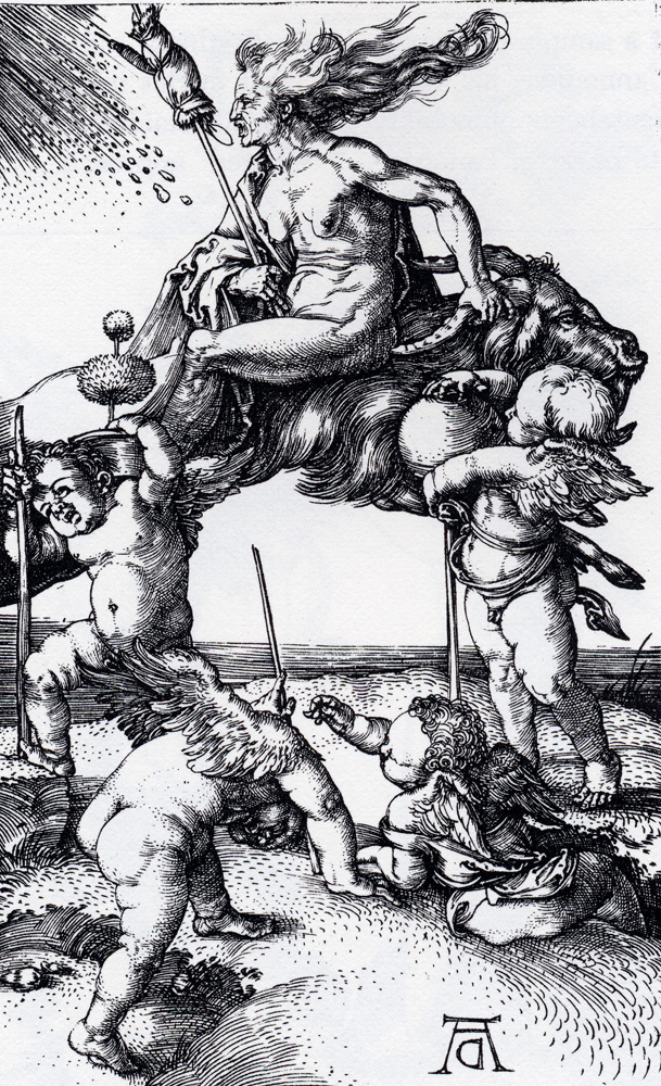 Witch Riding Backwards On A Goat